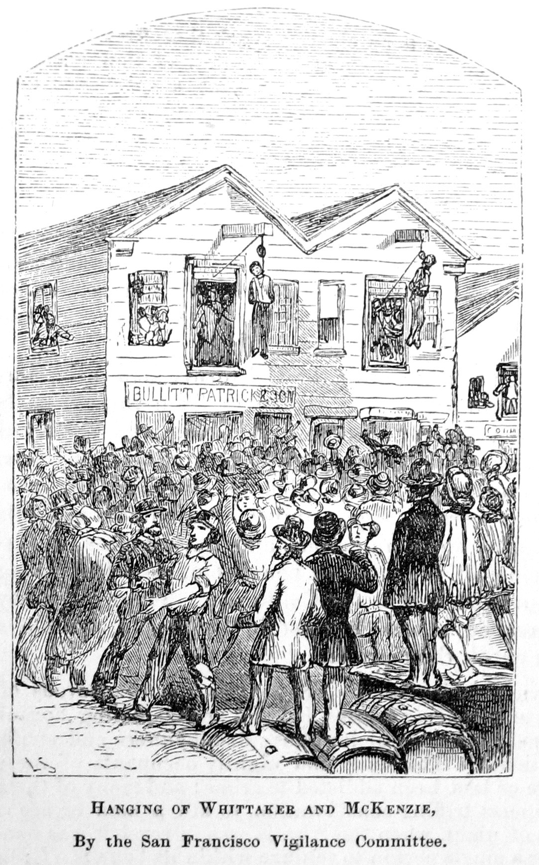 Lynching of Samuel Whittaker (no relation) and Robert McKenzie, August 24, 1851 by the San Francisco Committee of Vigilance, on the west side of Battery street between California and Pine streets in San Francisco.